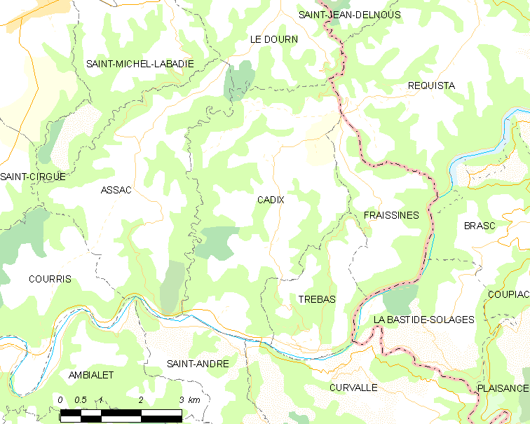 Map of French municipality Cadix